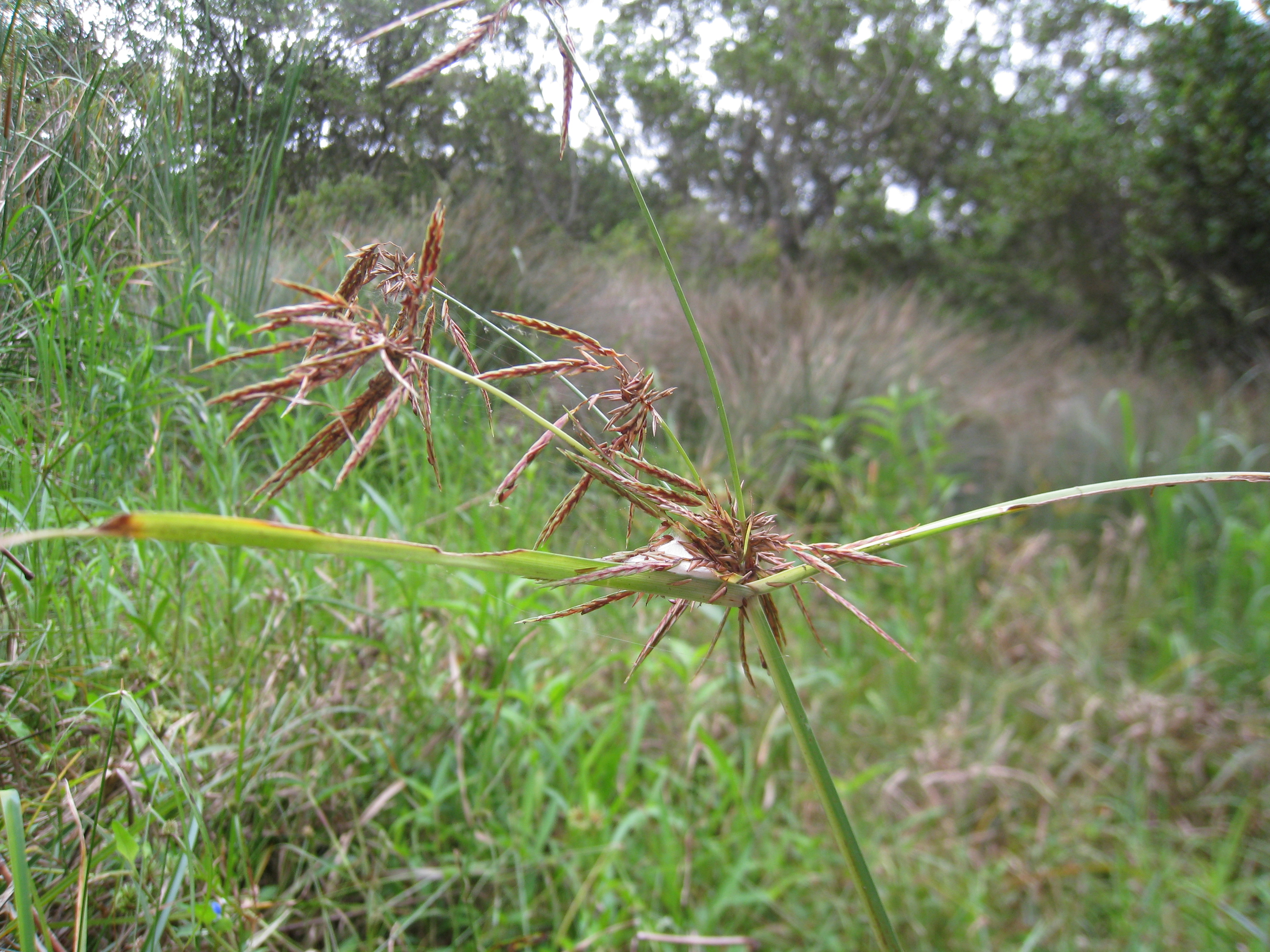 Cyperus congestus after a diet of too much goodness - an inter-tidal, possibly brackish, nutrient-filled swamp. Paruna Reserve, Como NSW Australia, January 2010.